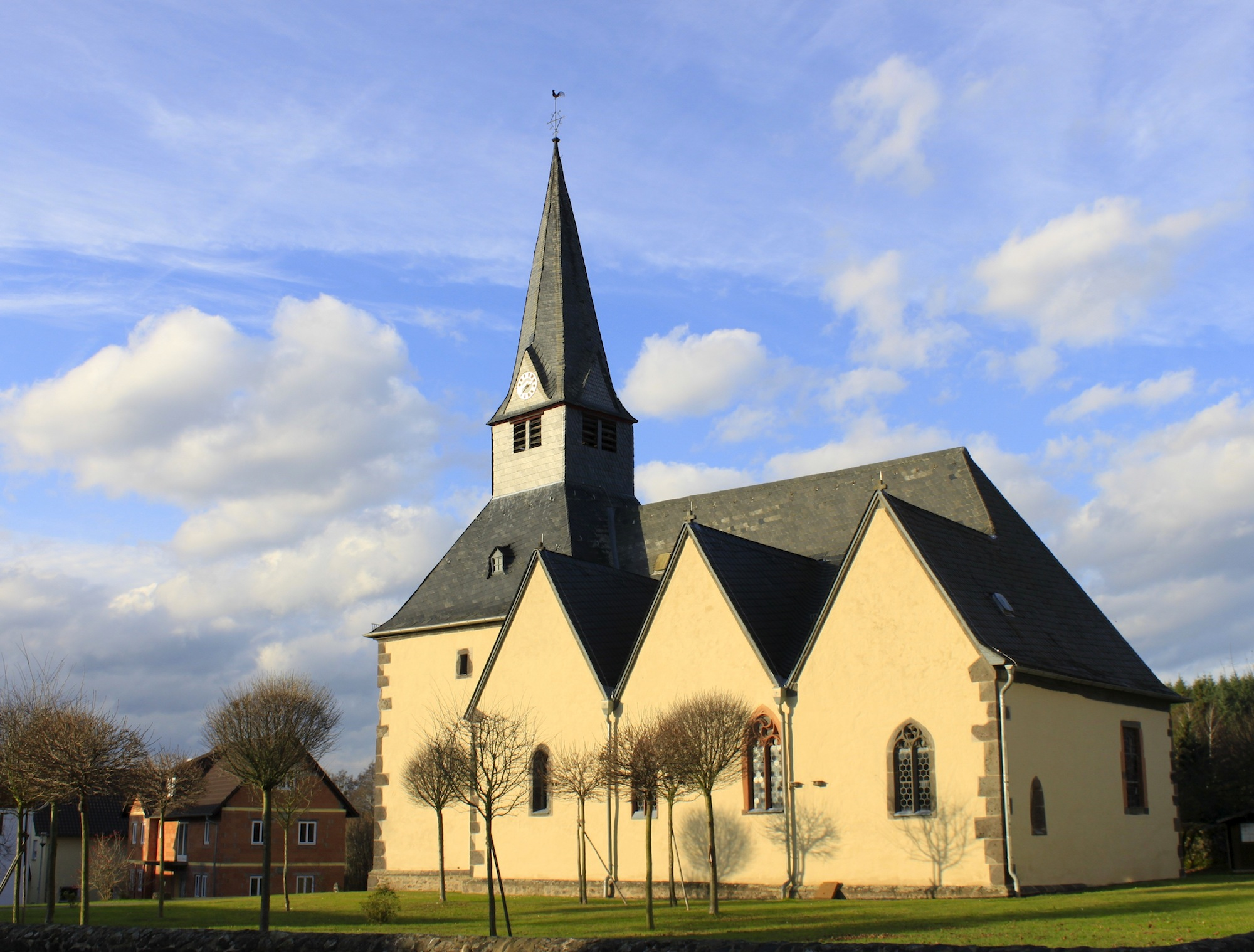 Laubach - Münster (Hesse), church.